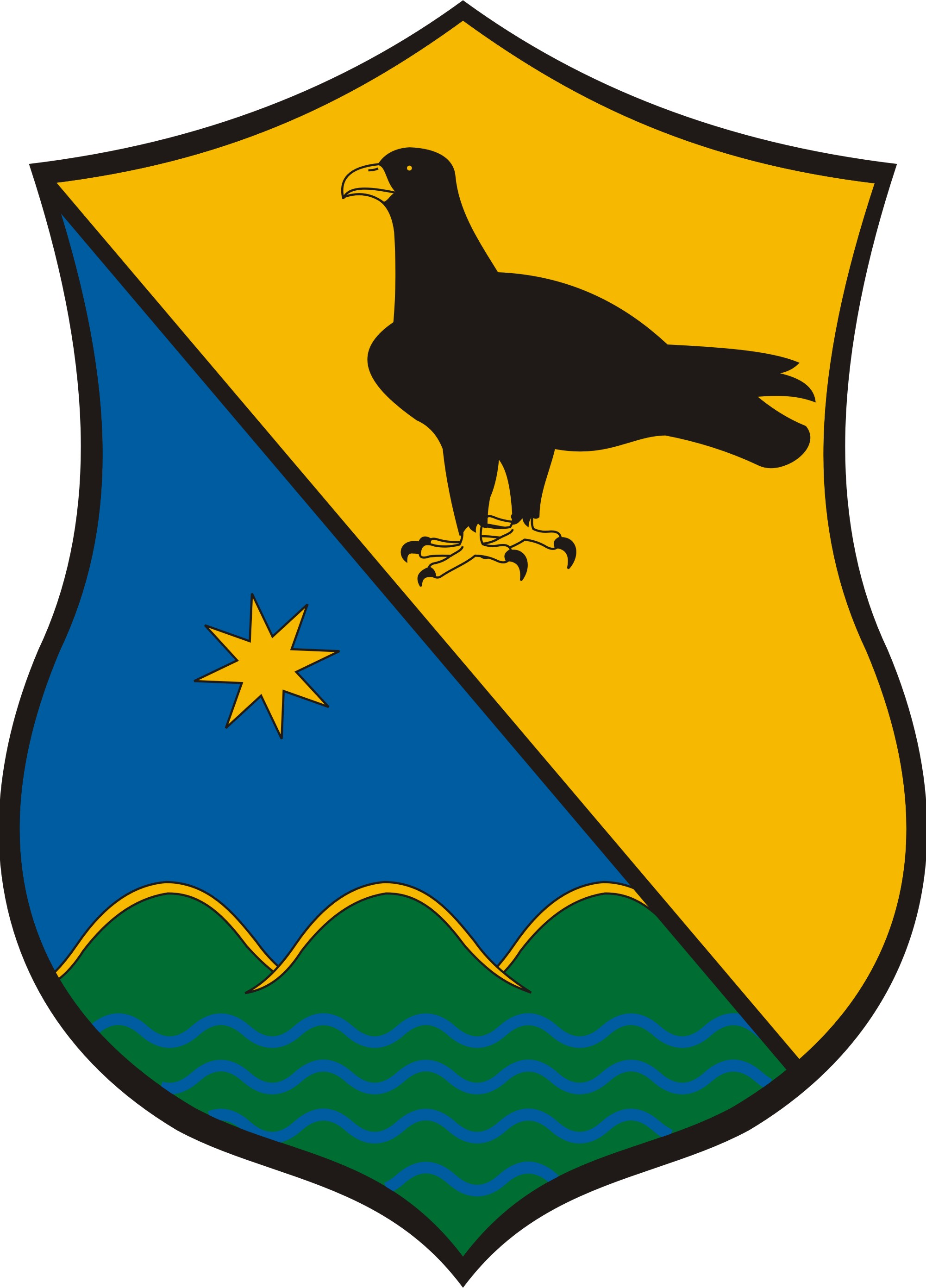 Coat of arms of Pánd, Hungary